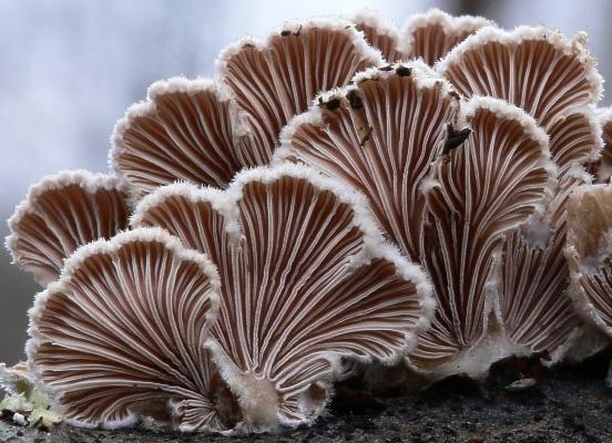 fungi